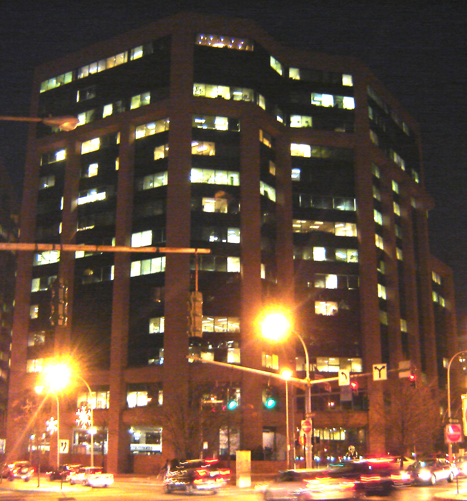 Pace University Graduate Center in downtown White Plains, NY.